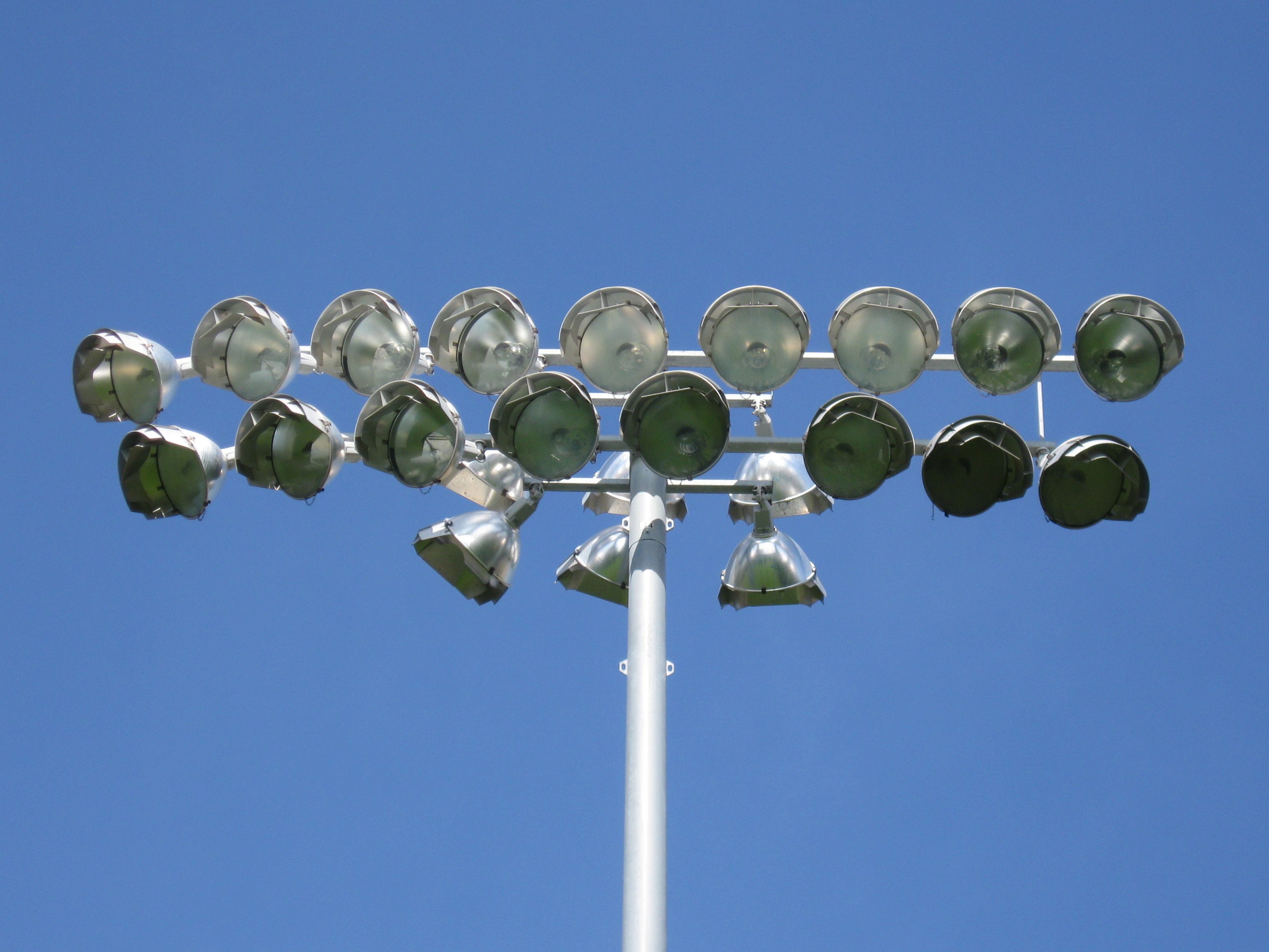 Floodlights at Stuart Field in Illinois Institute of Technology, Chicago